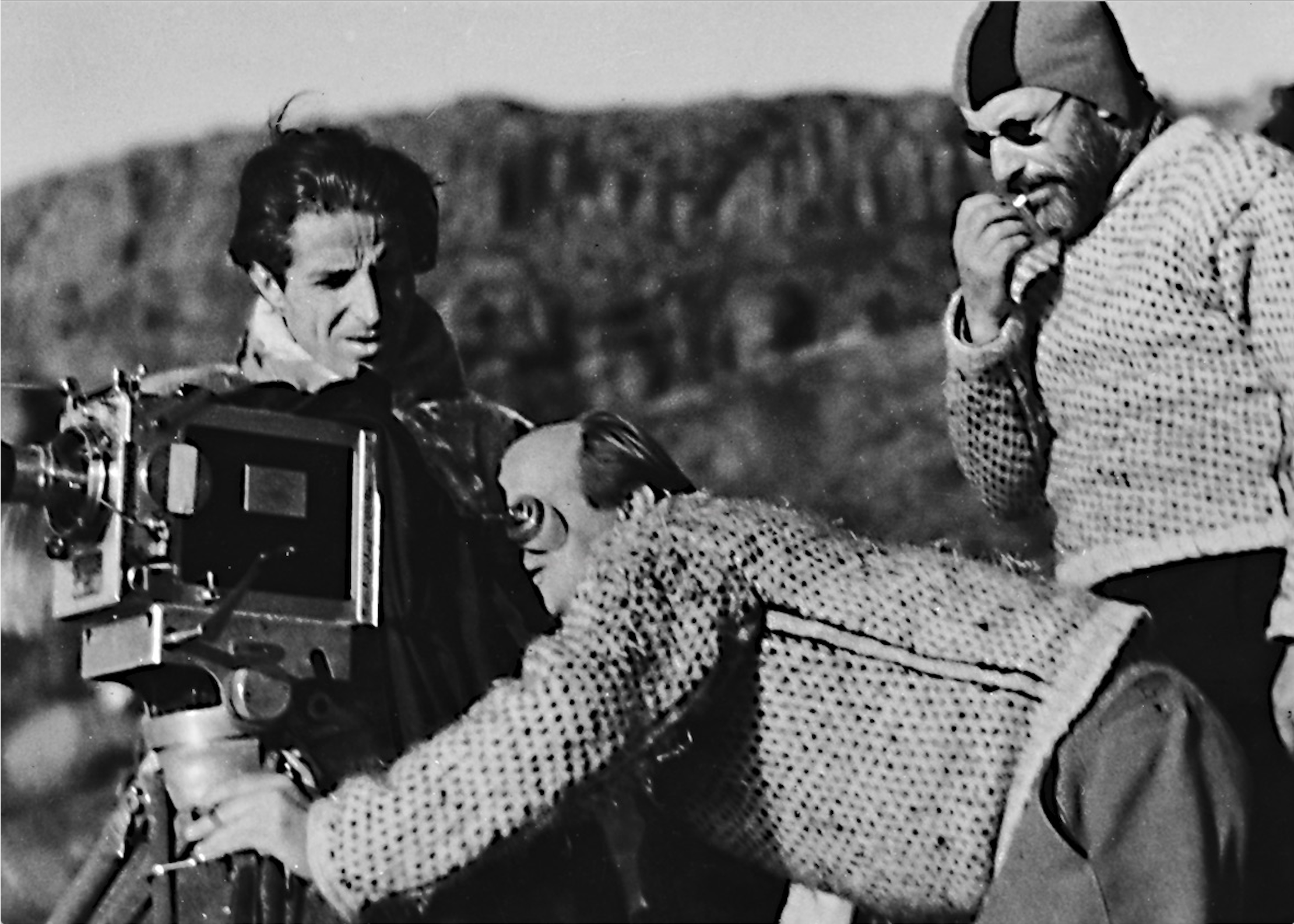 Aviator ace Ernst Udet (1896–1941, center, bent over) checks the shot of cameraman Hans Schneeberger (1895–1970, background left), supervised by film director Arnold Fanck (1889–1974, right)